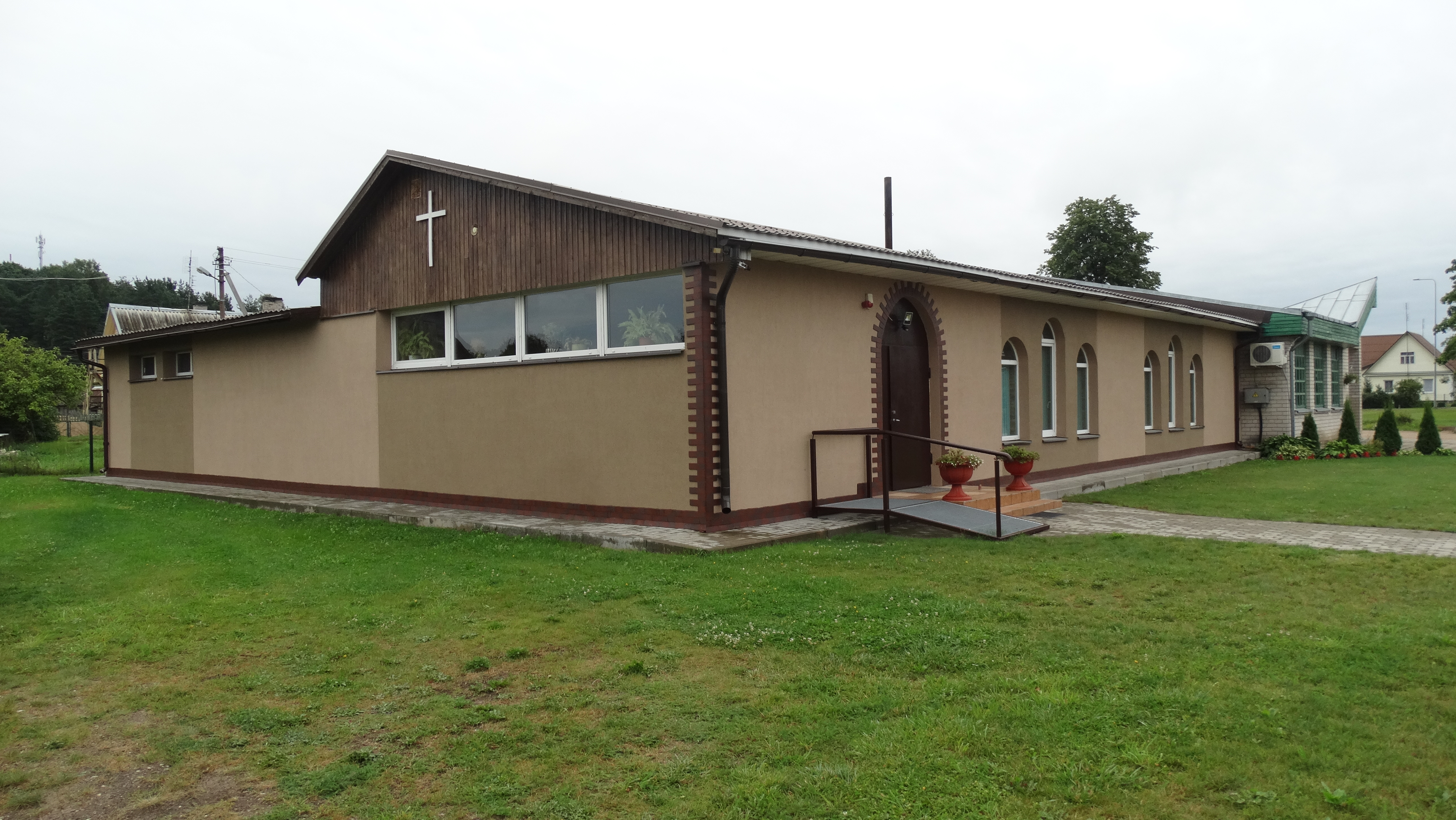 Pentecostal сhurch „Light of the gospel“, Švenčionys, Lithuania